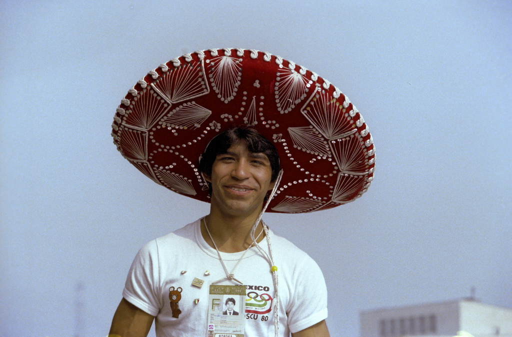 “Mexican sportsman at 1980 Olympics”. Mexican sportsman.XXII Summer Olympics (19 July-3 August).